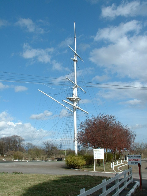 HMS Ganges (former) The mast at HMS Ganges shore base Shotley Suffolk. For more info see HMS_Ganges_%28shore_establishment%29